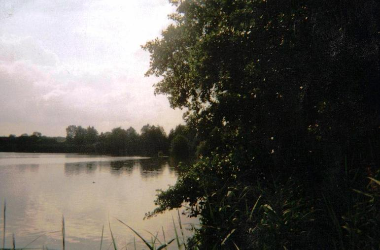 Ponds on Jeziorka River in the village of Wygnanka near Mszczonów, Poland